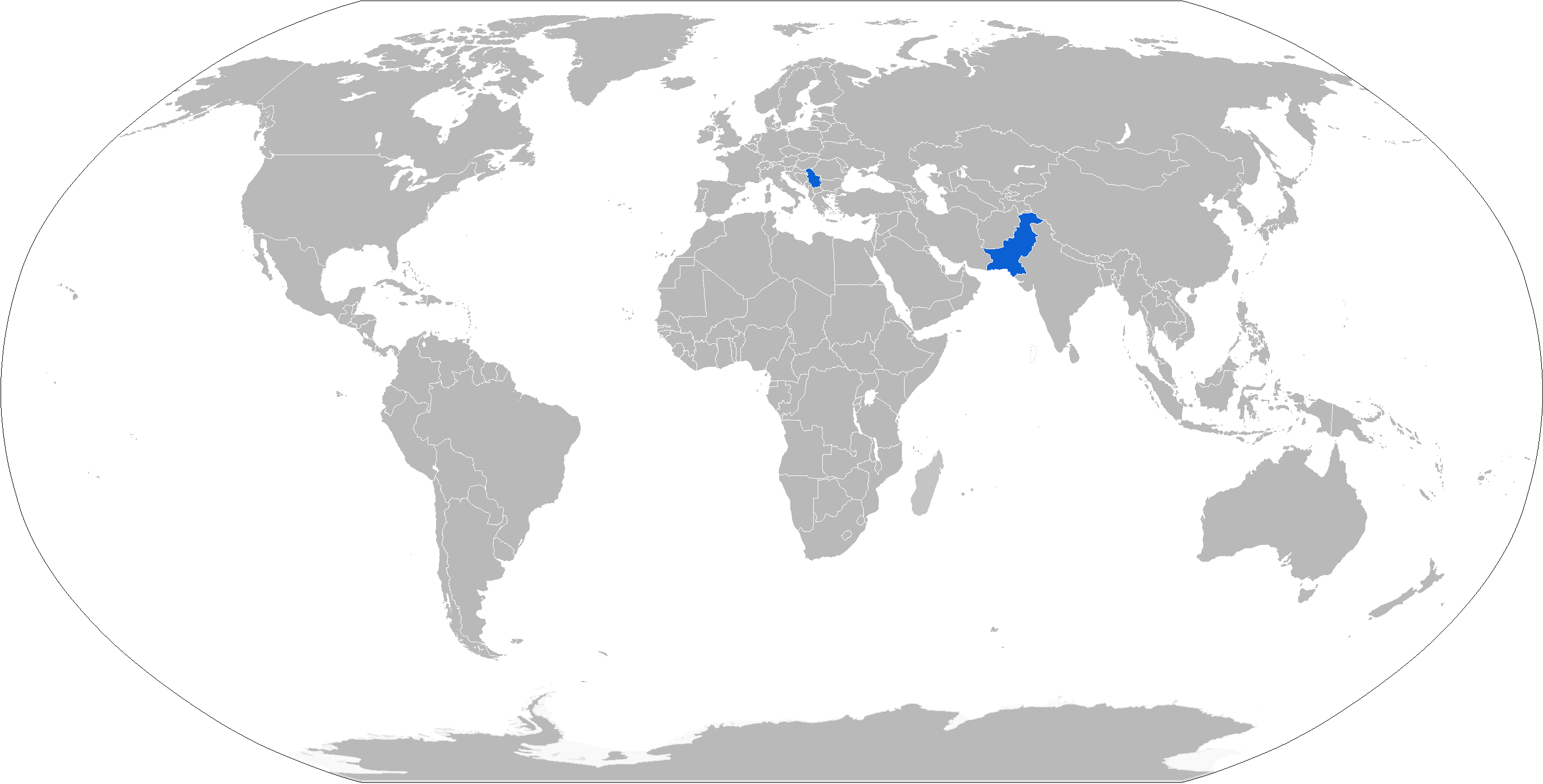 Map with Lazar 2 operators in blue